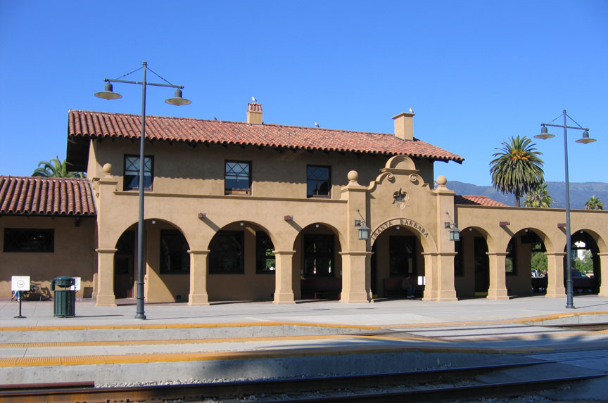 Santa Barbara Train Station in Santa Barbara, California